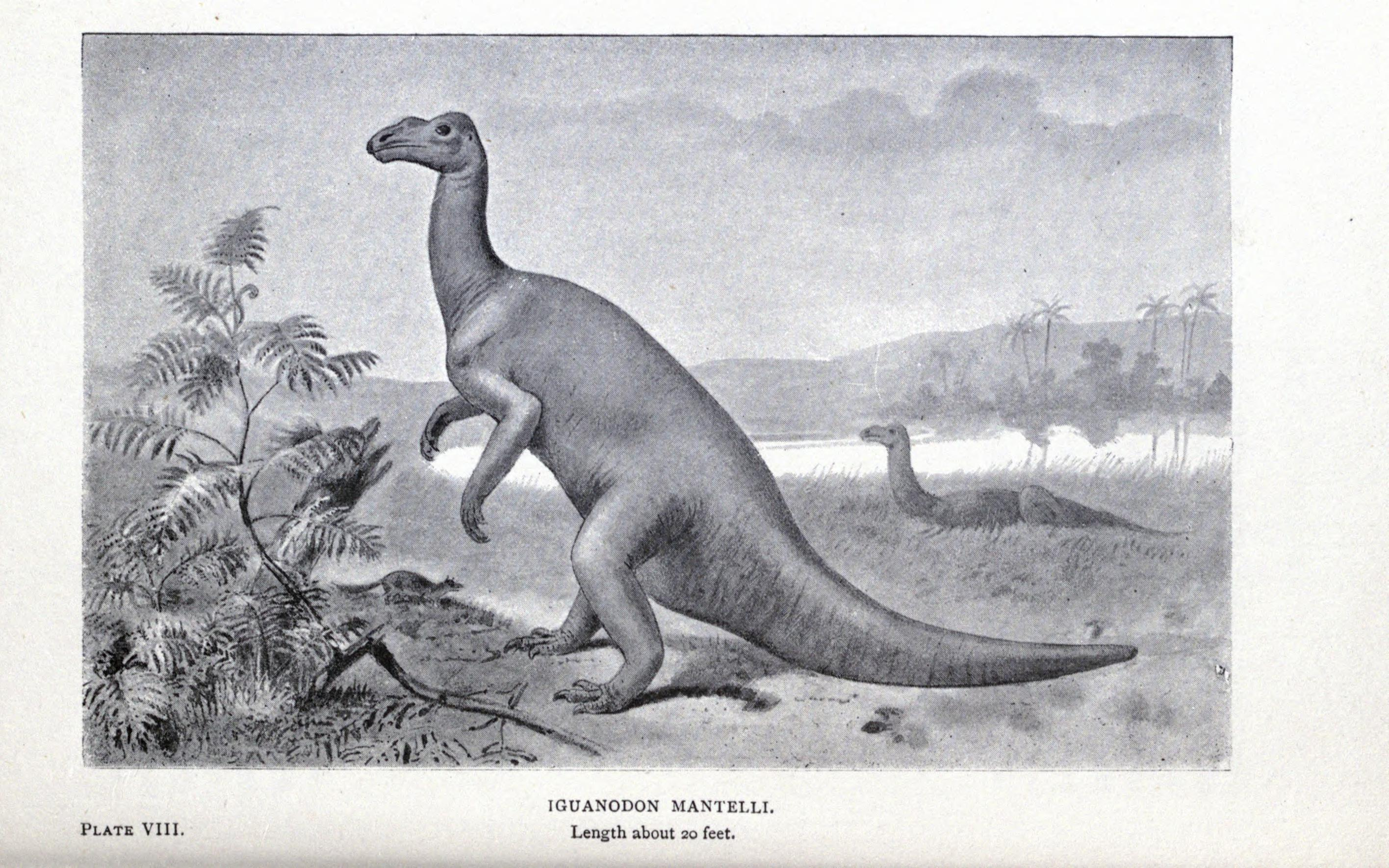 Extinct monsters.